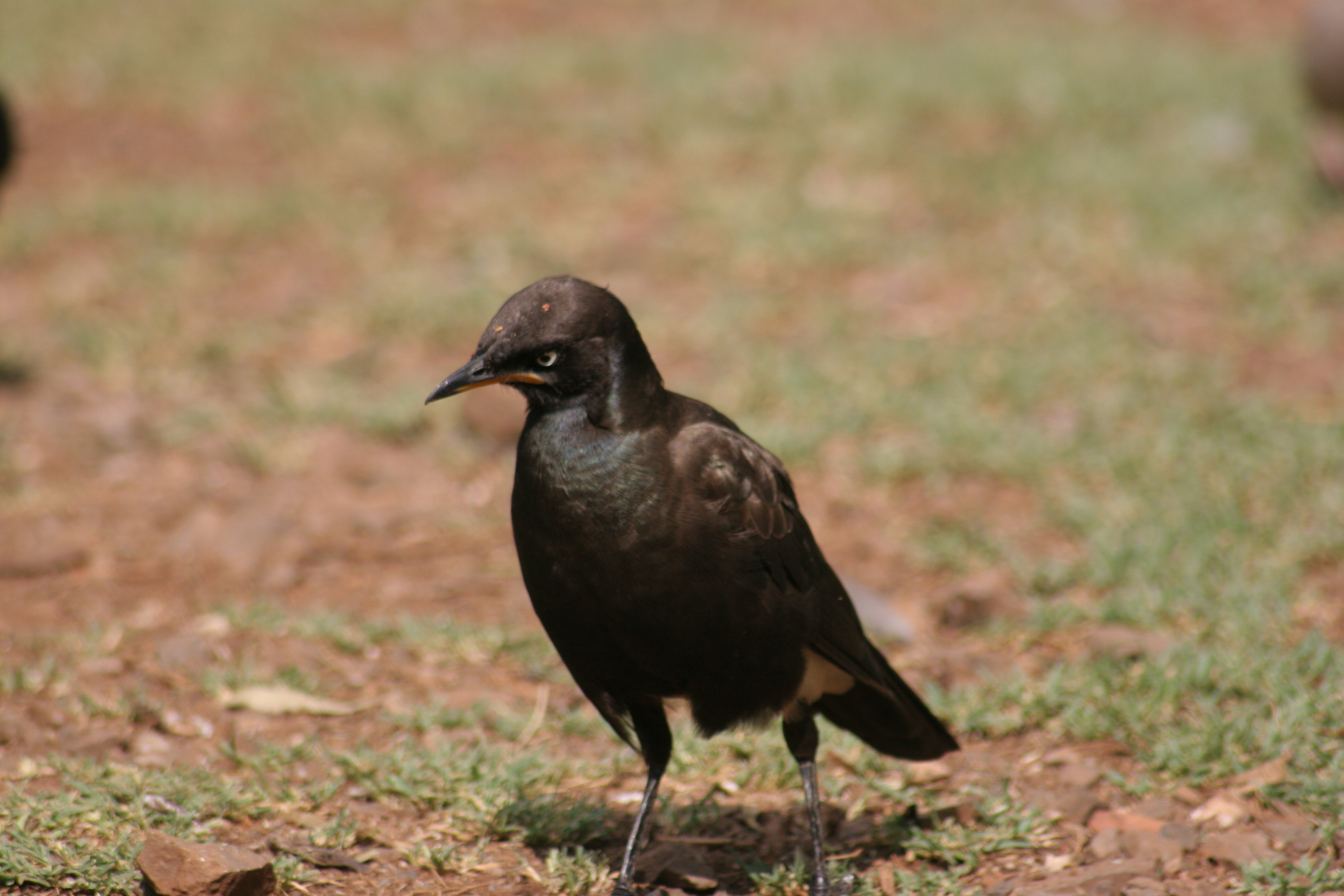 Lamprotornis bicolor (syn. Spreo bicolor).